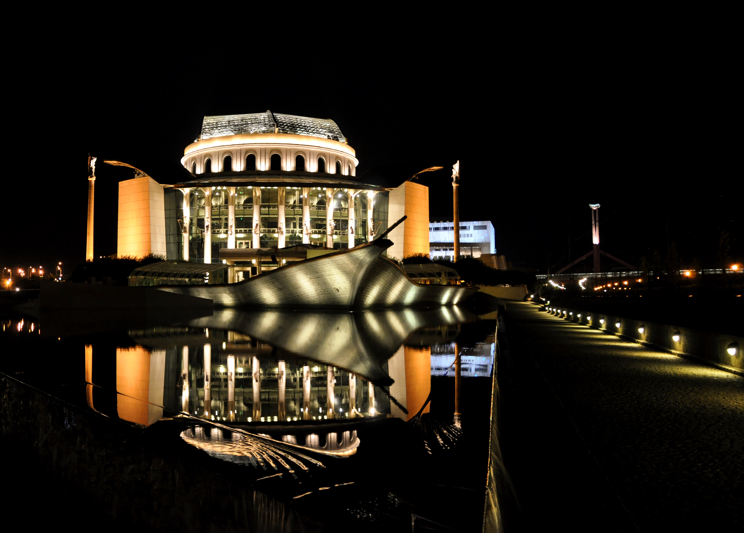 had to try out the D90 so we went for a quick trip yesterday, at 1 am i only had energy for these 3 to make ... there is more to come from this series